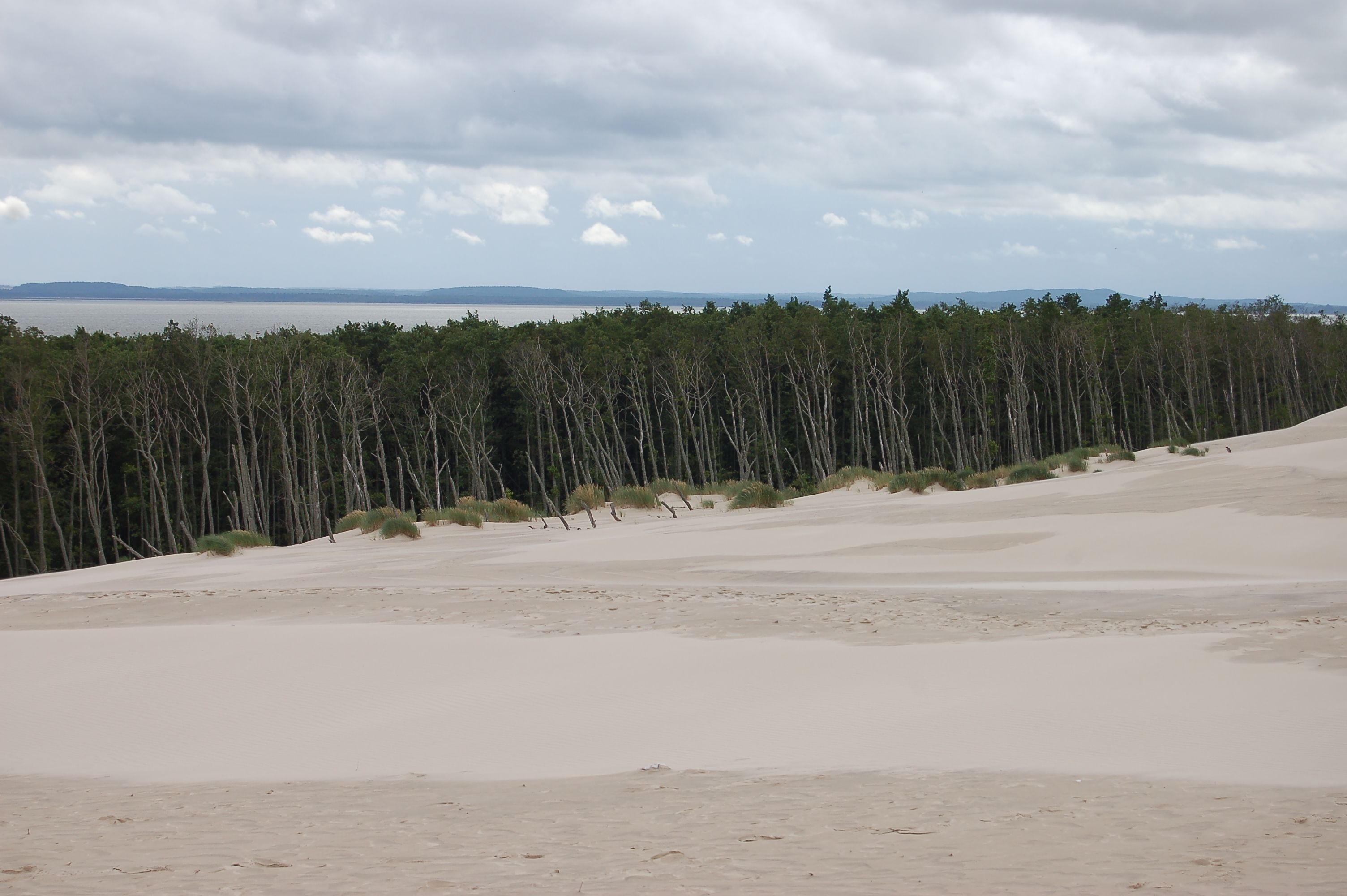 The Łącka Góra dune and the lake Łebsko in the background. Wehn the sand reaches the forrest, the trees are dieing.